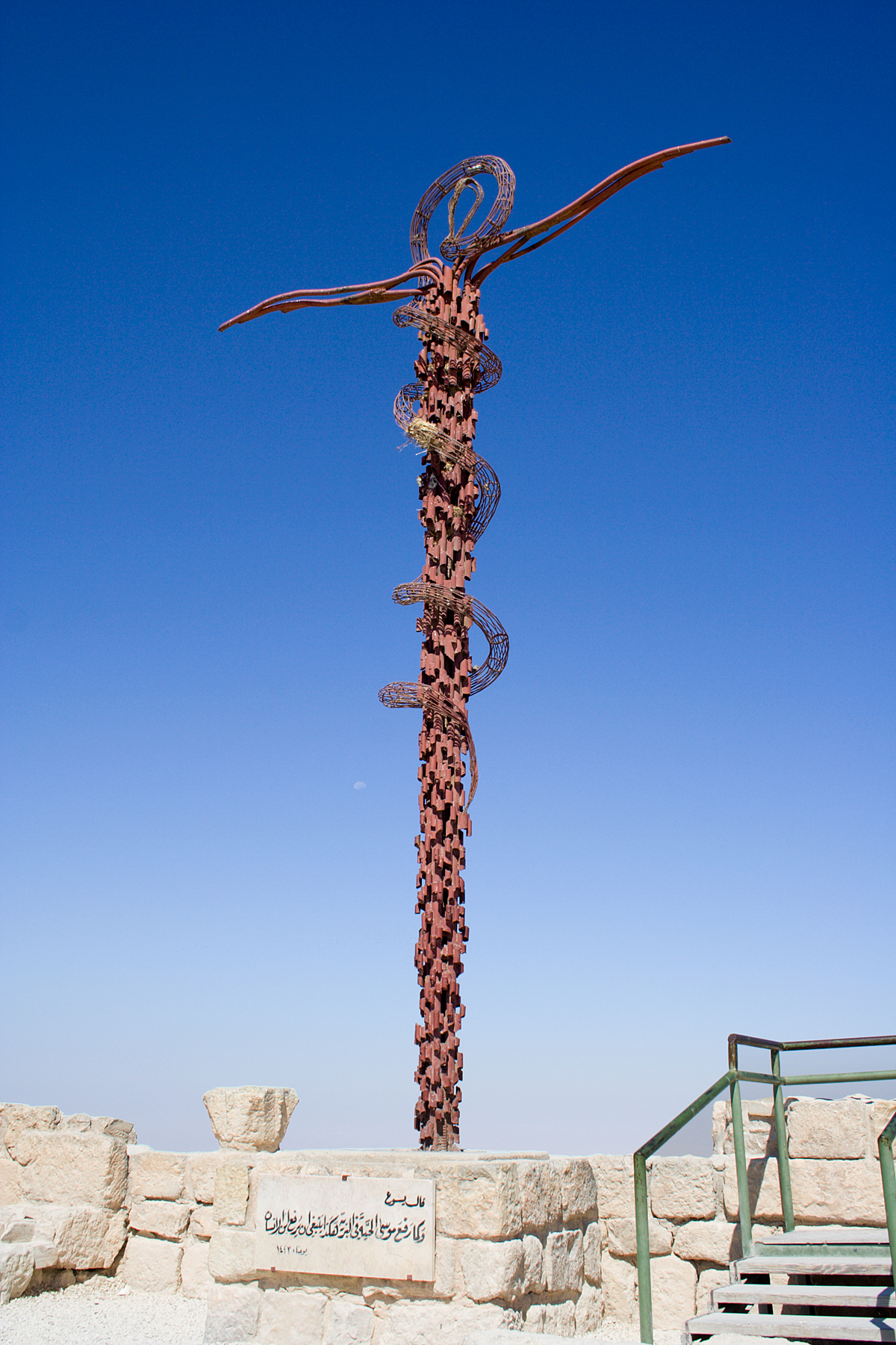 The Christological Symbol (Brazen Serpent Sculpture), created by Italian artist, Giovanni Fantoni, stands atop Mount Nebo. It is symbolic of the bronze serpent created by Moses in the wilderness (Numbers 21:4-9) and the cross upon which Jesus was crucified (John 3:14).